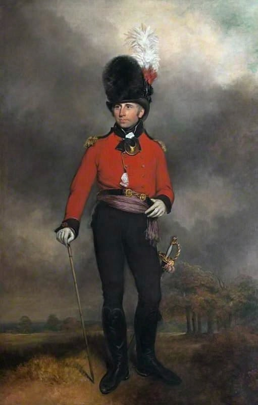 William Amherst, 1st Earl Amherst